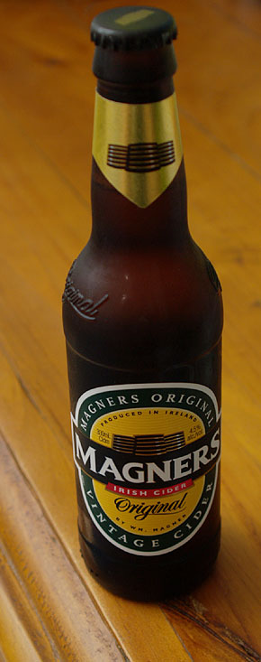 Magners Original Irish Vintage Cider